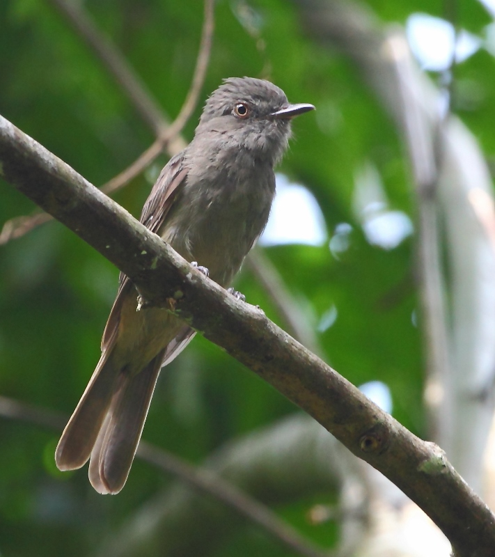 Grayish Mourner at Bertioga - SP - Brazil